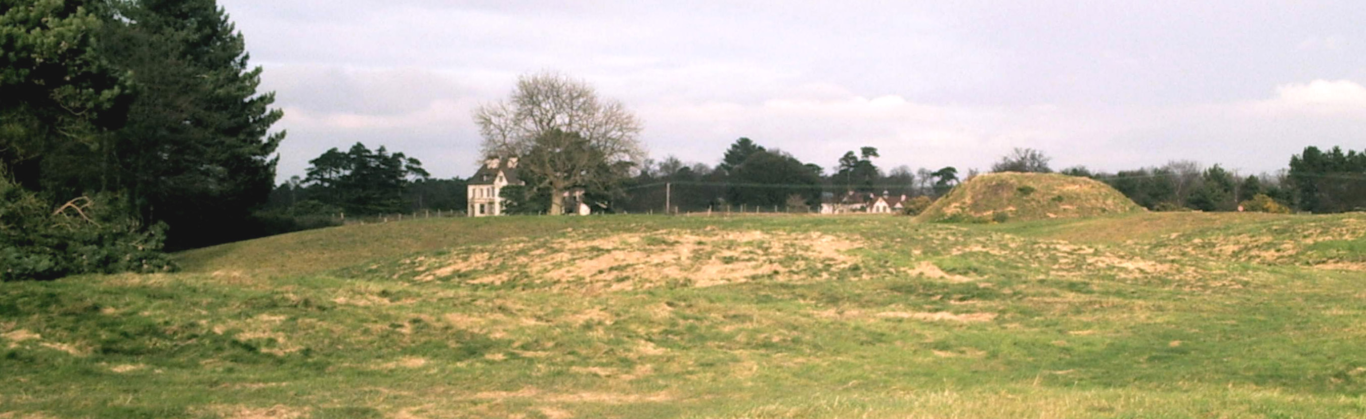 Part of the Sutton Hoo gravefield showing Mound 1 and others (foreground), Mound 2, reconstructed (middle distance) and Sutton Hoo House (distance).